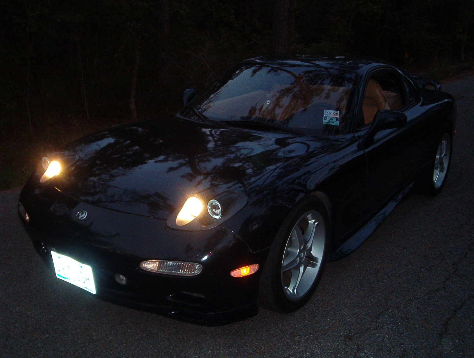 Mazda RX-7 at night with halos on. 18" x 12" AVS wheels in back, 17" x 10" in front, all on Yokohama DB AVS tyres.